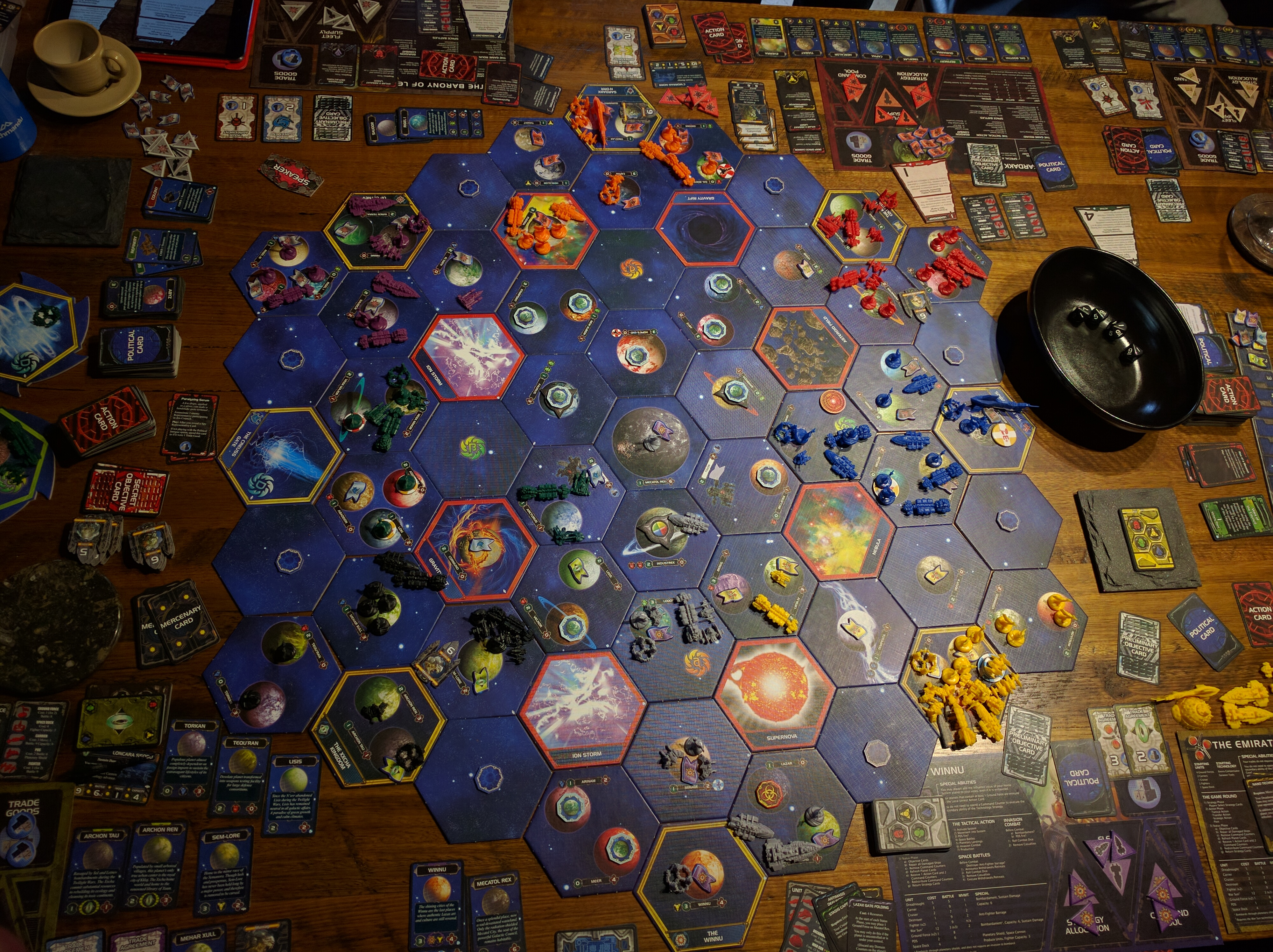 Shot of Twilight Imperium 3rd edition being played